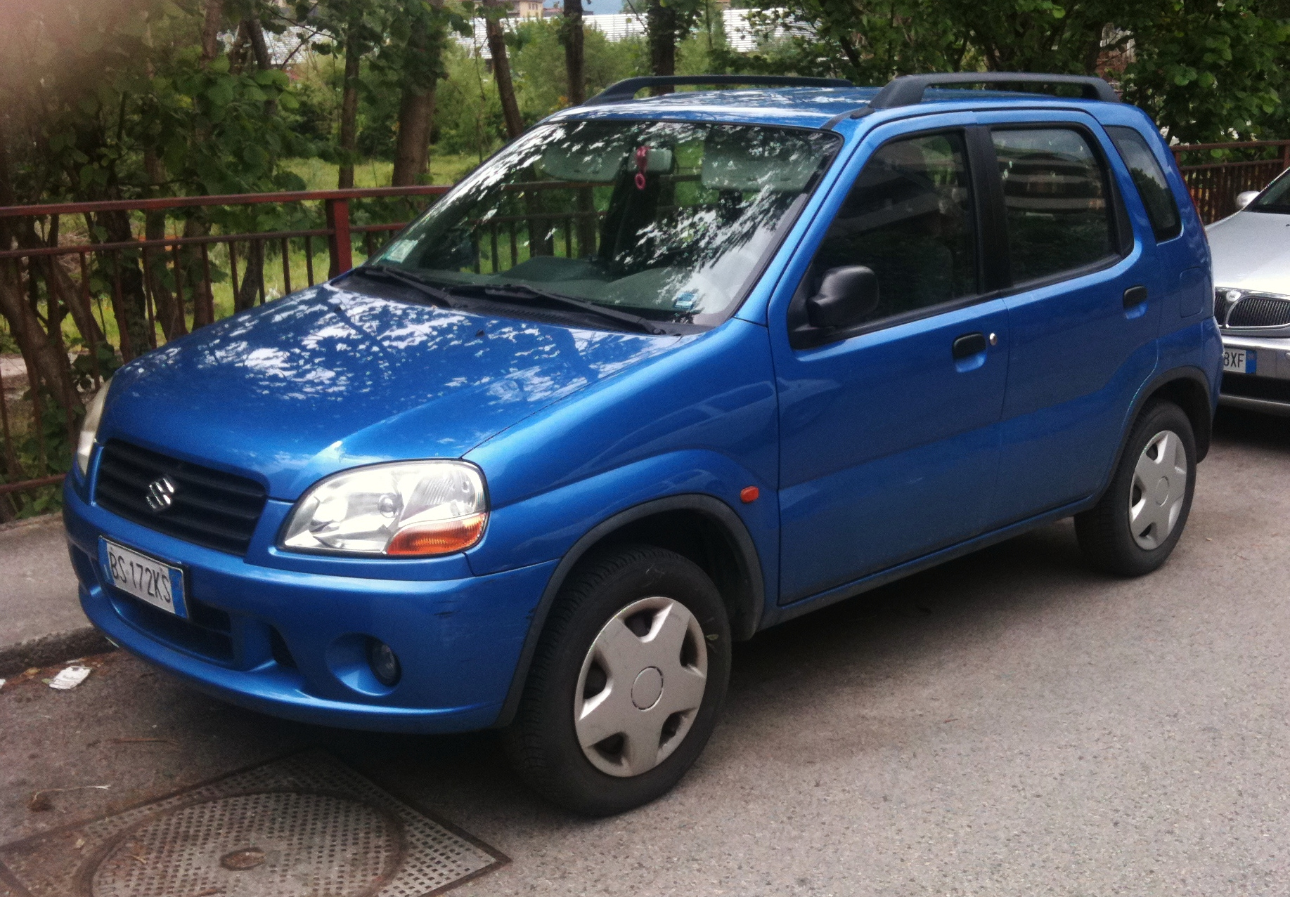 Suzuki Ignis in Avellino